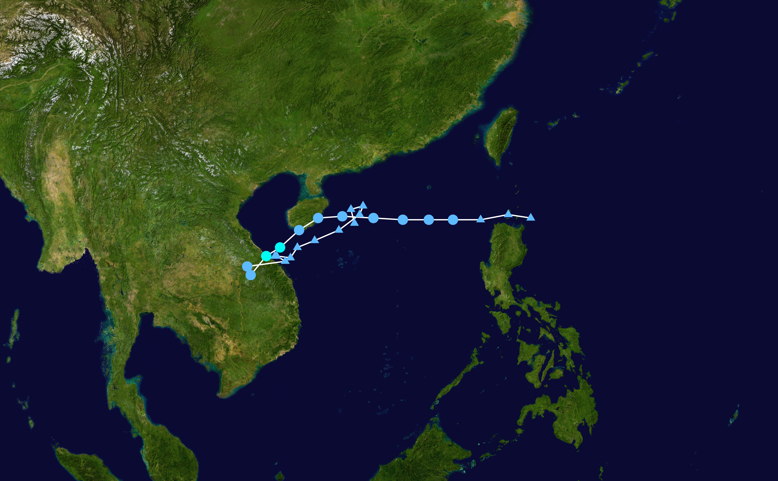 Track map of Tropical Storm Kajiki of the 2019 Pacific typhoon season. The points show the location of the storm at 6-hour intervals. The colour represents the storm's maximum sustained wind speeds as classified in the Saffir–Simpson scale (see below), and the shape of the data points represent the nature of the storm, according to the legend below. Saffir–Simpson scale Tropical depression≤38 mph≤62 km/h Category 3111–129 mph178–208 km/h Tropical storm39–73 mph63–118 km/h Category 4130–156 mph209–251 km/h Category 174–95 mph119–153 km/h Category 5≥157 mph≥252 km/h Category 296–110 mph154–177 km/h Unknown Storm type Tropical cyclone Subtropical cyclone Extratropical cyclone / Remnant low / Tropical disturbance / Monsoon depression